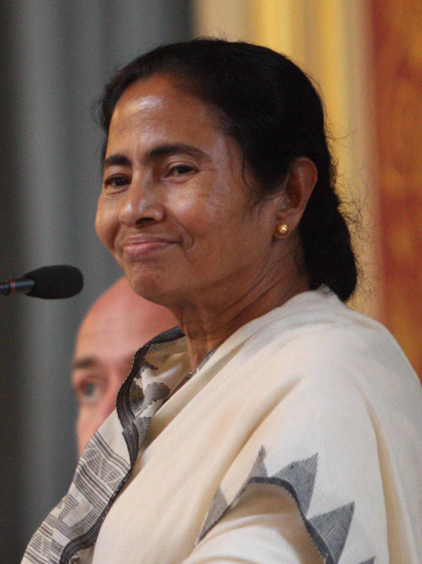 Mamata Banerjee, Chief Minister Government of West Bengal speaking at an event in London, 27 July 2015.